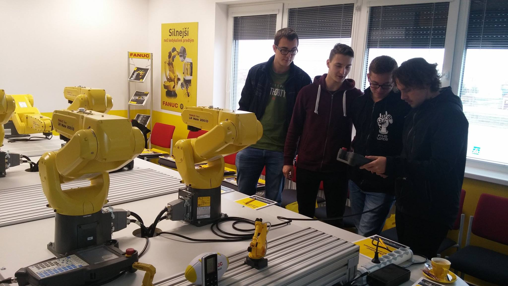 SSOS Polytechnicka Nitra